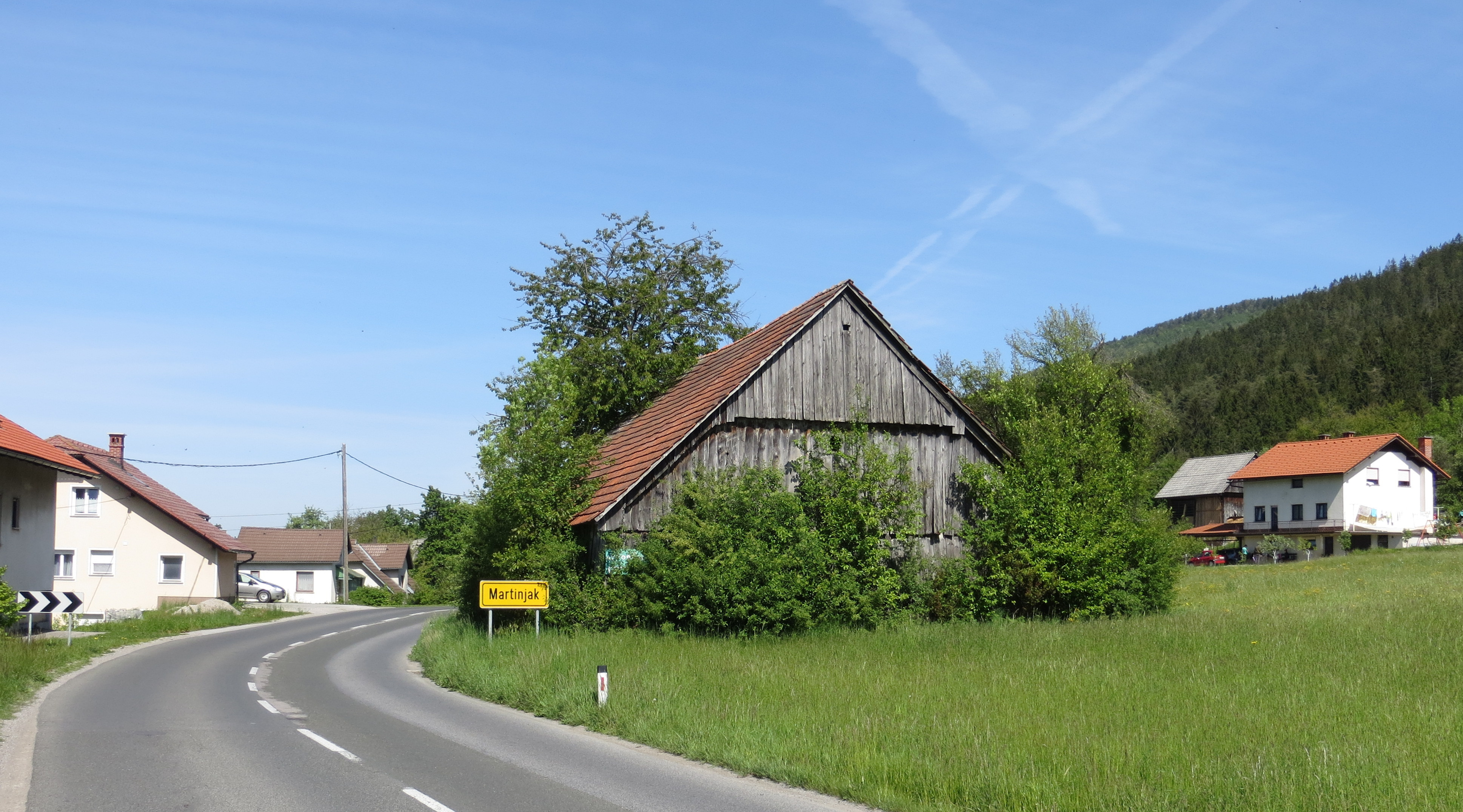 Martinjak, Municipality of Cerknica, Slovenia. Vieew from southeast.